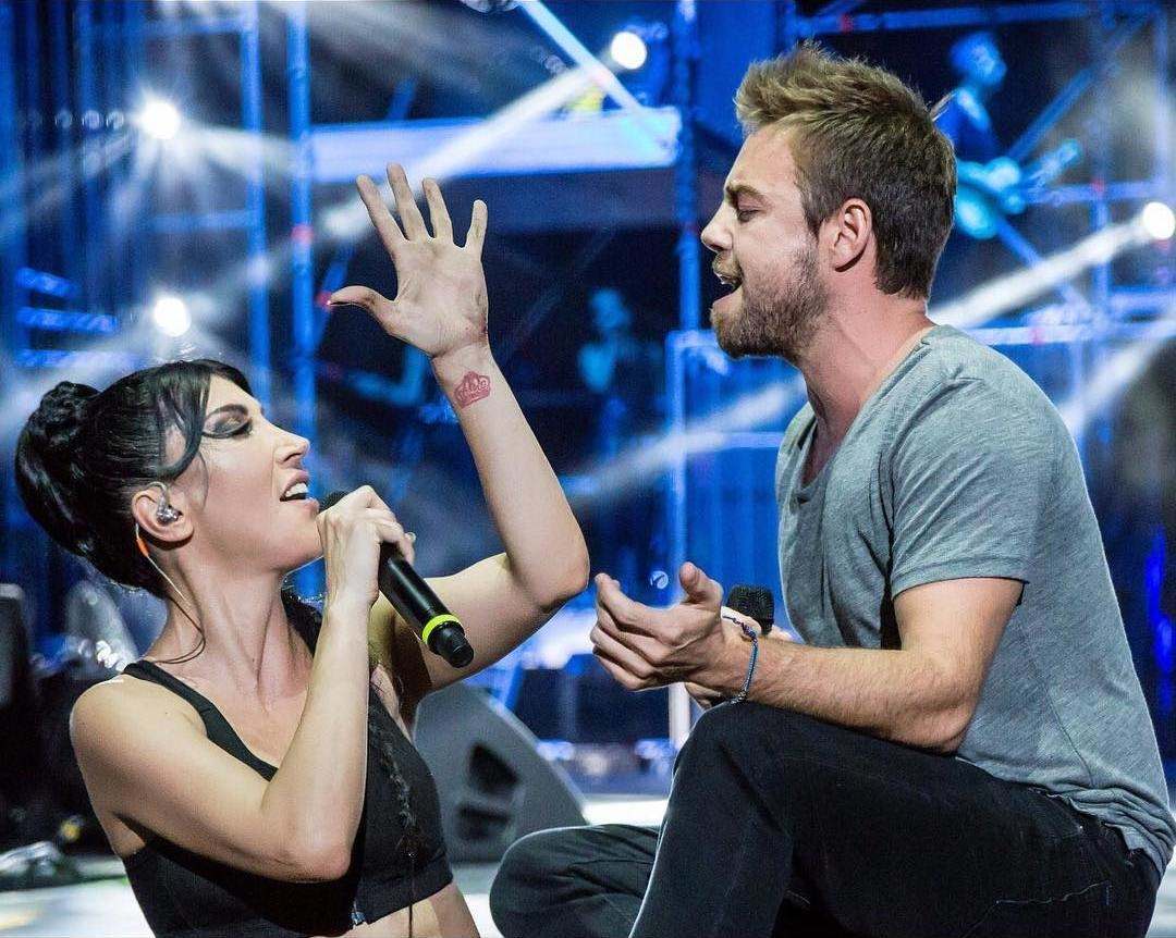 Hande Yener and Murat Dalkılıç performing "Görev" at Harbiye on August 9, 2016.